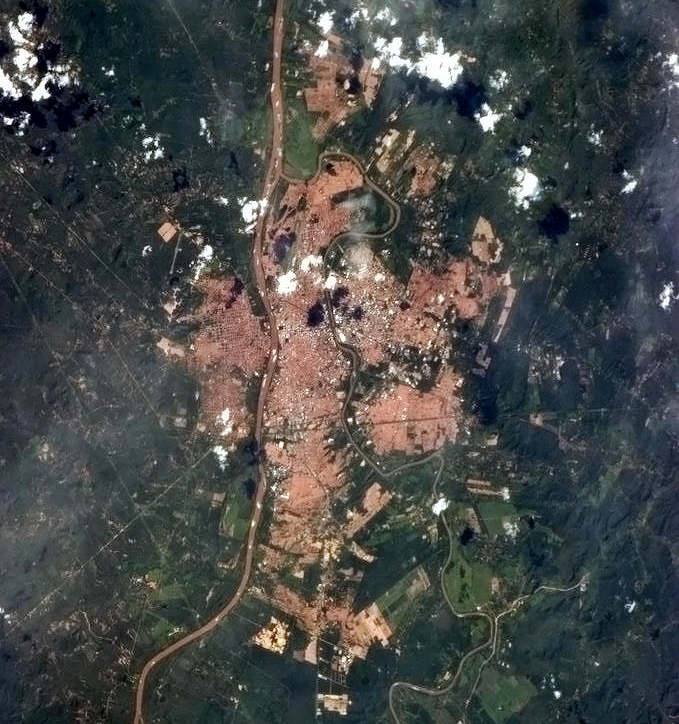 Teresina and Parnaiba river pictured from the ISS